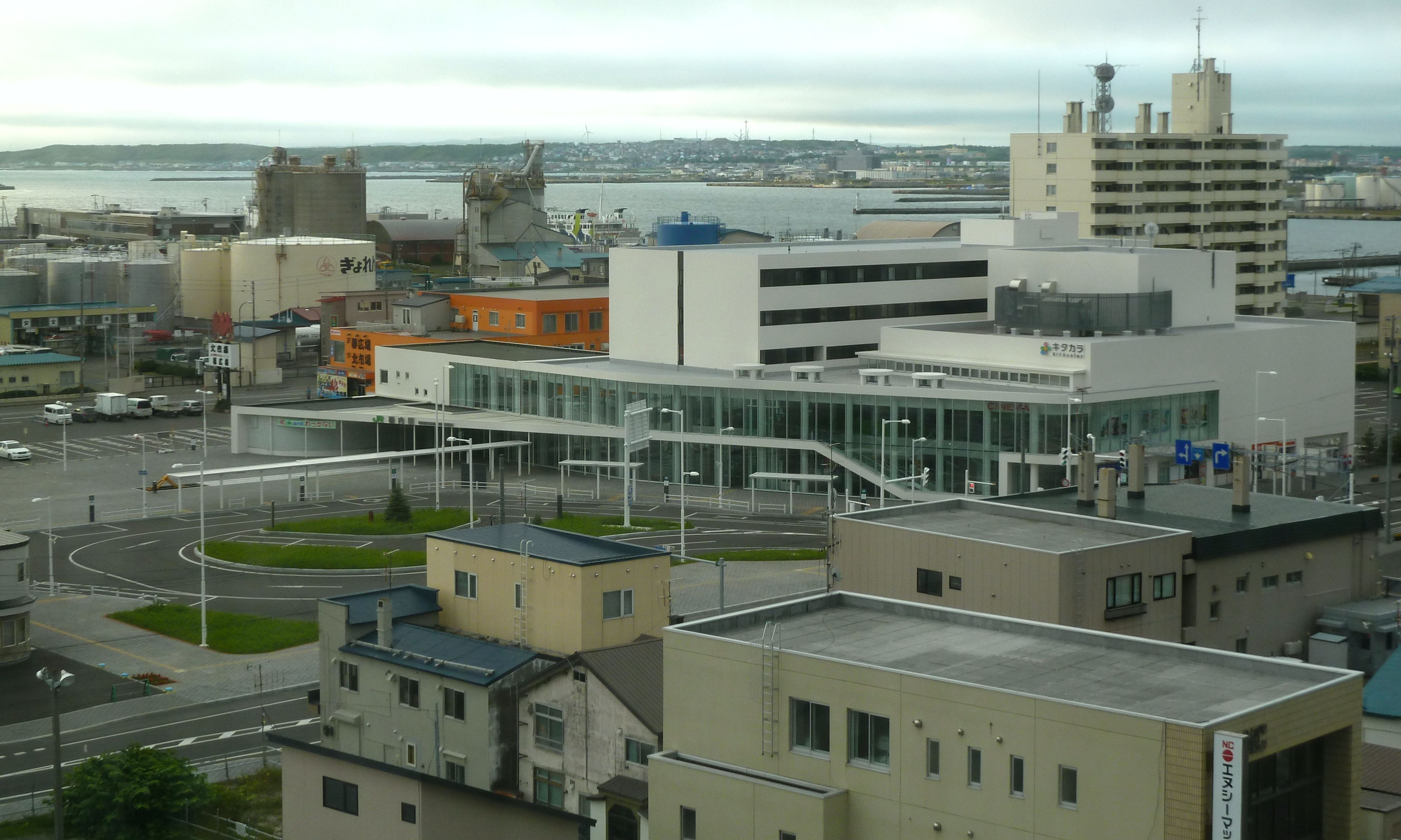 Bird view of KITAcolor